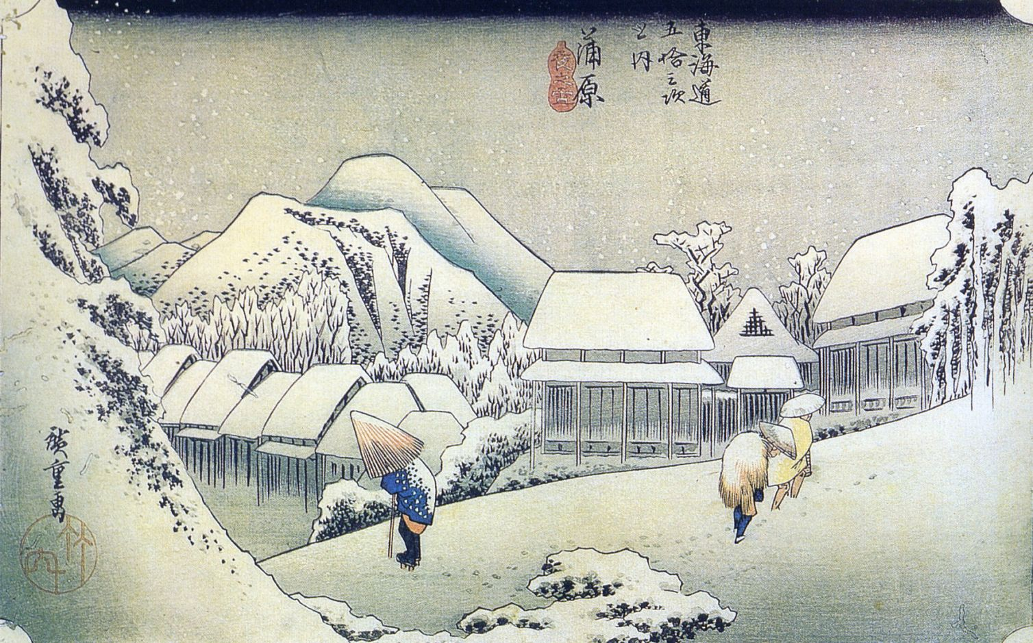 Utagawa Hiroshige: Snow in Kanbara, 53 Stations of Tokaido, 1833. Color print, 26x38 cm.